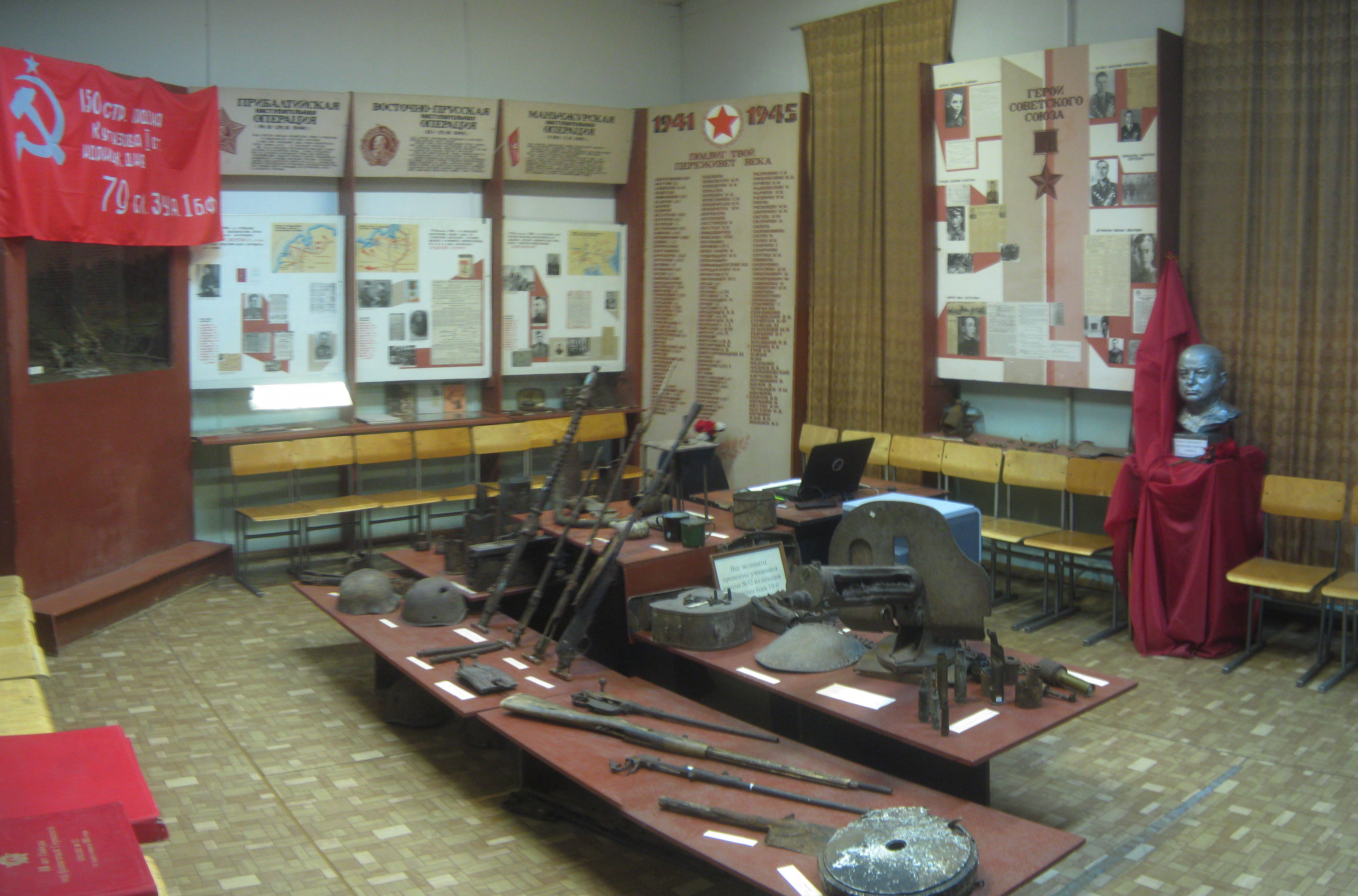 Музей 19 дивизии в школе 32 Томска